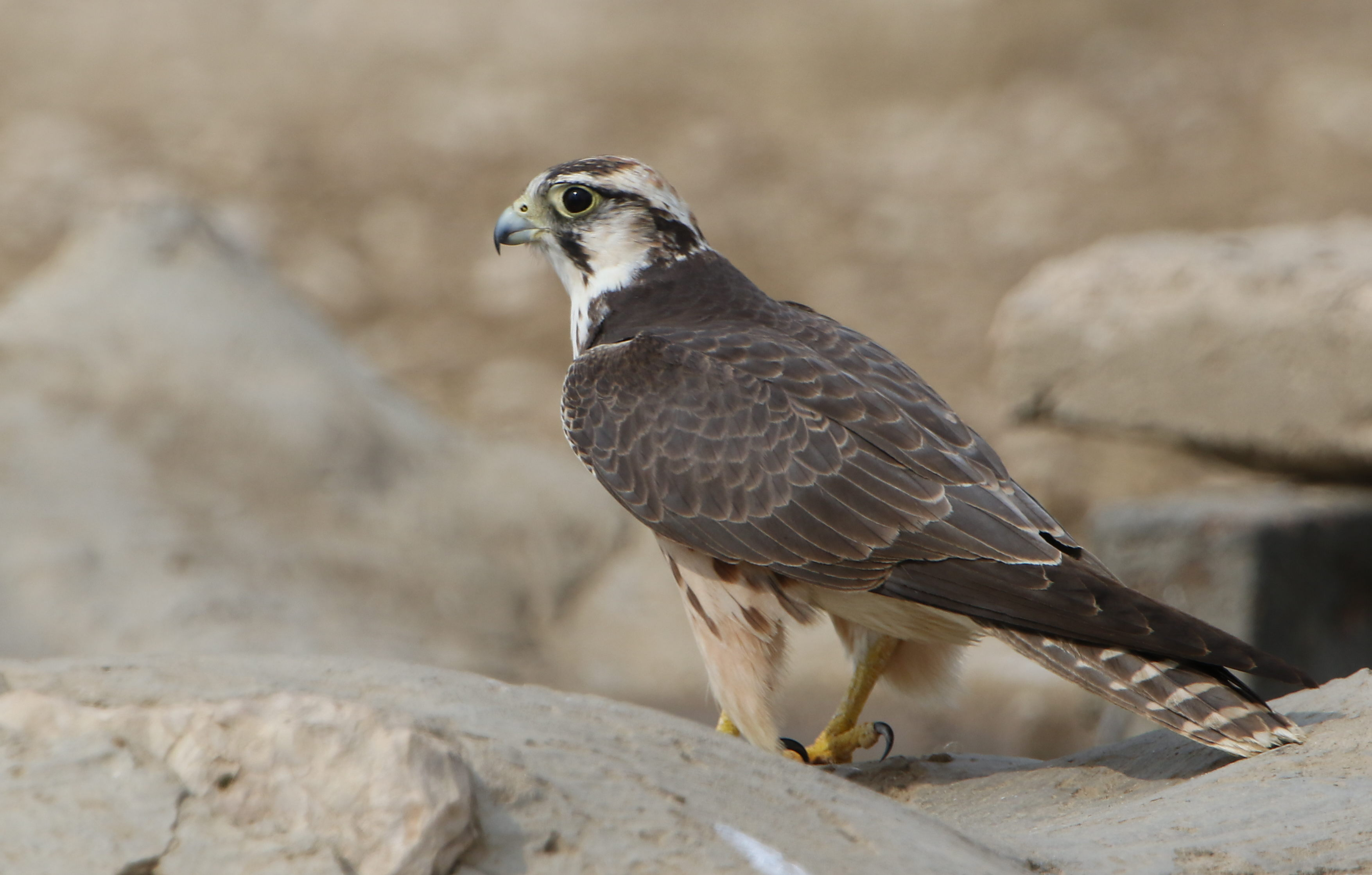 Lanner falcon, Falco biarmicus, at Kgalagadi Transfrontier Park, Northern Cape, South Africa